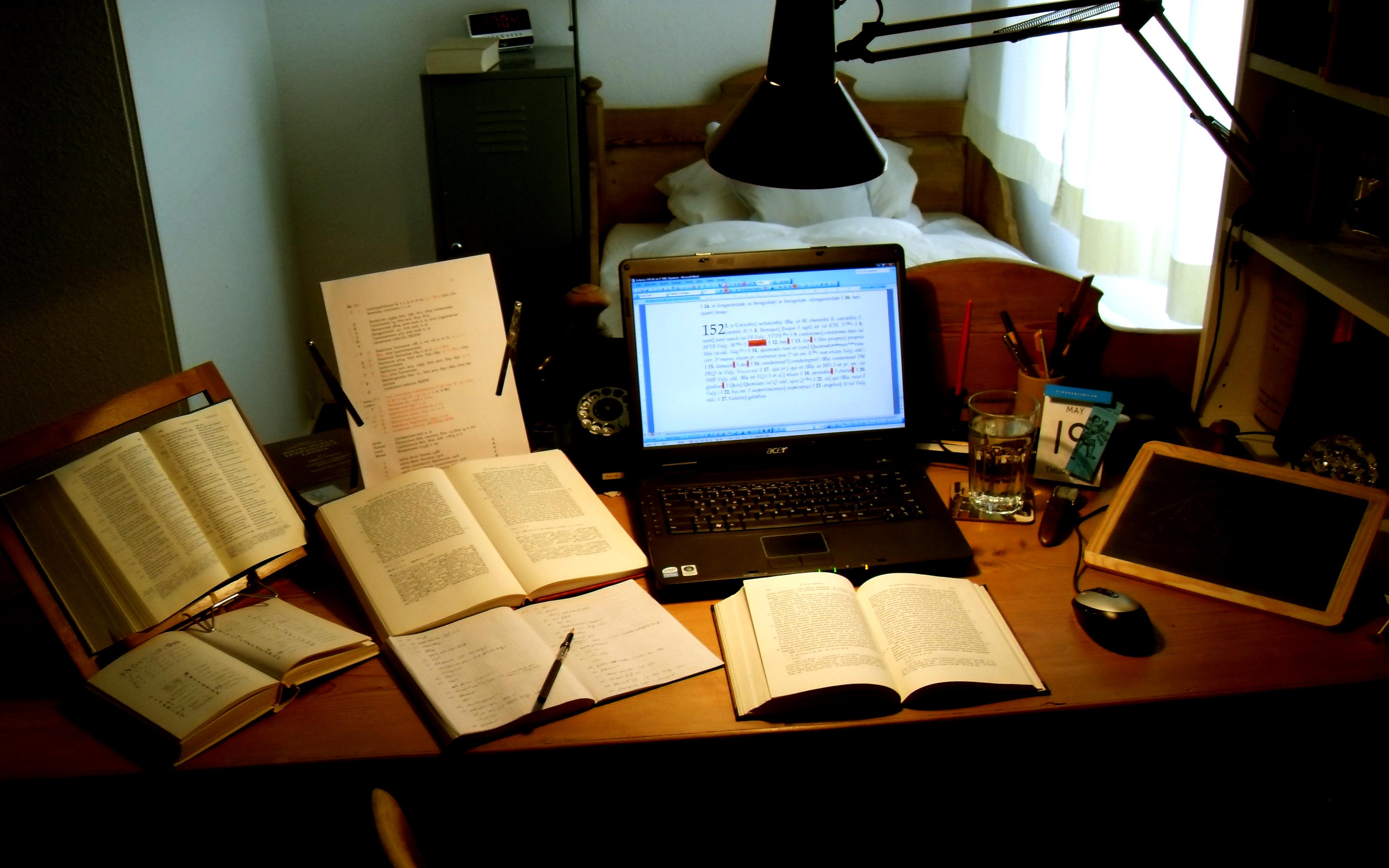 Desk of a philologist